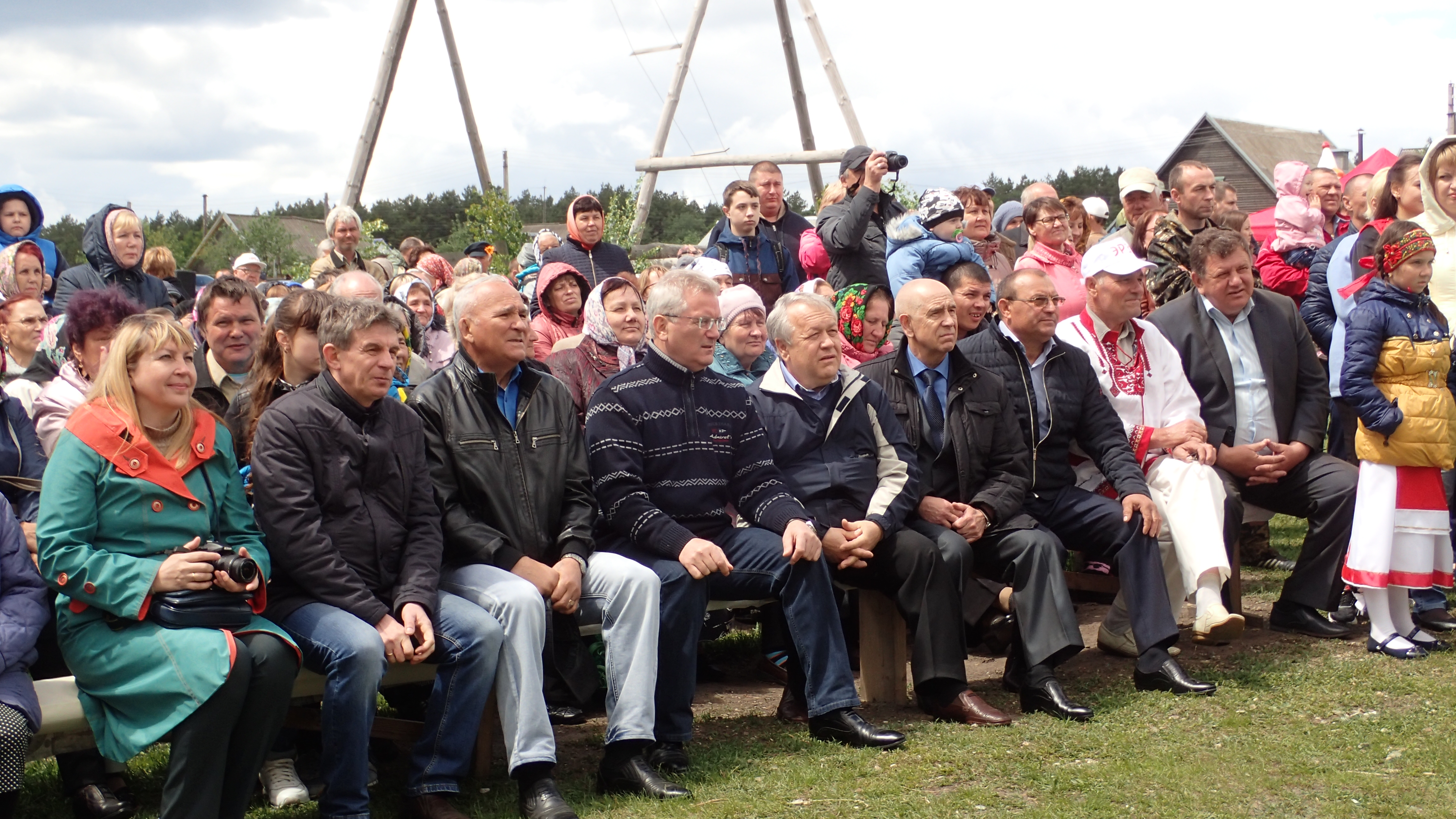 In the center sit: Chairman of the Erzya-Moksha national-cultural autonomy of the Penza region V.I. Pervushkin, deputy. Chairman of the Legislative Assembly of the Penza Region A.I. Yermukin, Governor of the Penza Region I.A. Belozertsev, Head of the Administration of the Bessonovsky District V.E. Demichev, Head of the Bessonovsky District N.I. Belyaev Holiday «Poksh Erzyan Chi» (russian: «Big Erzyan Day»). Village Pazelki, Bessonovsky district, Penza region. 04/06/2017.